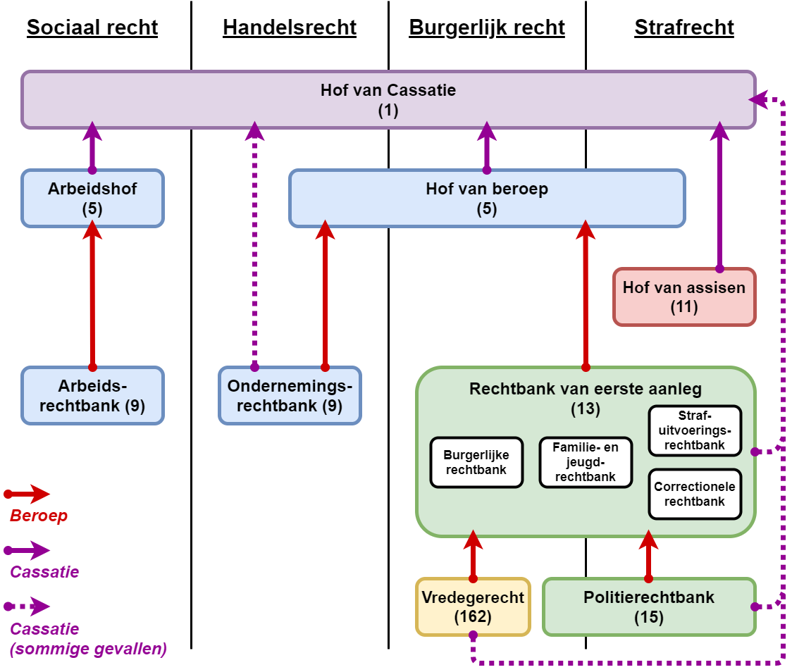 Schematic overview of all Belgian judicial authorities, their hierarchy, the areas of law in which they are competent and the possibilities for higher appeal. Yellow: organized per canton, green: organized per arrondissement ("district"), red: organized per province, blue: organized per judicial area ("ressort") and purple: one for the entire country. Situation as of 2020.